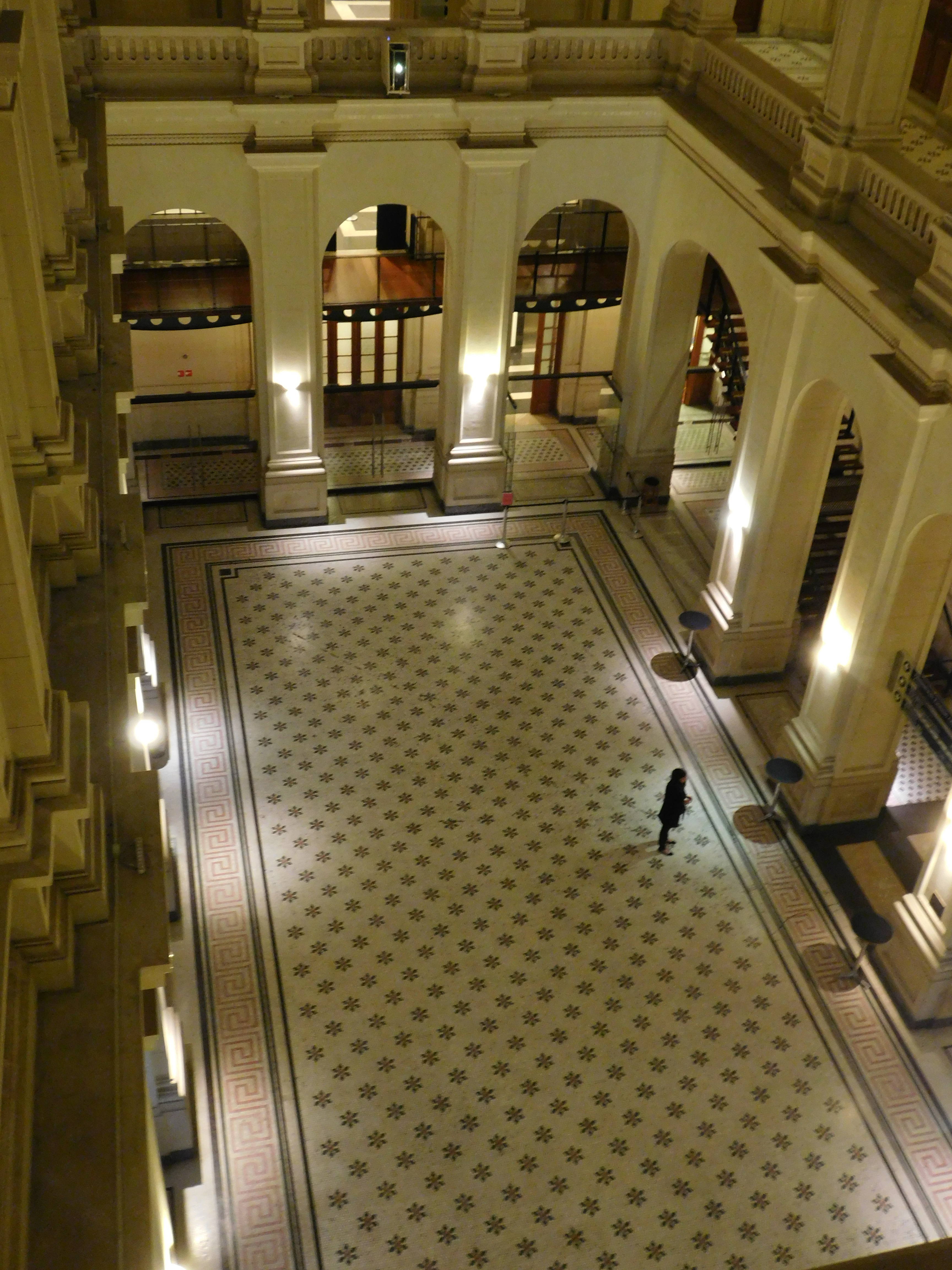 The Júlio Prestes Cultural Center, which is located in the Júlio Prestes Train Station in the old north central section of the city of São Paulo, Brazil, was inaugurated on July 9, 1999. The building has been totally restored and renovated by the São Paulo State Government, as part of the downtown revitalization in that city. It houses the Sala São Paulo, which has a capacity of 1498 seats and is the home of the São Paulo State Symphonic Orchestra (OSESP). It is a venue for symphonic and chamber presentations and has been designed according to state of the art standards, comparable to the Boston Symphony Hall, Musikverein in Vienna and the Concertgebouw in Amsterdam.